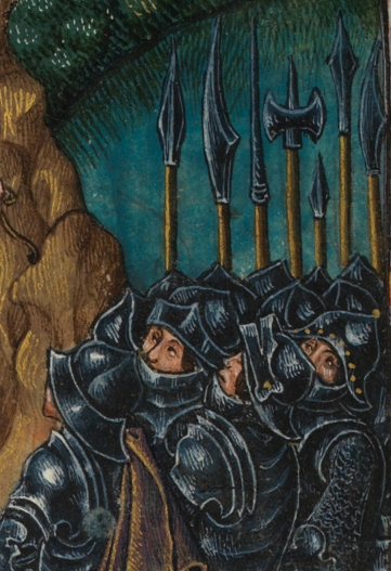 Soldiers with pikes. From image of Christ before Pilate, and before Herod; angels in border. See main image: [File:Christ before Pilate, and before Herod; angels in border (f. 54v).jpg]